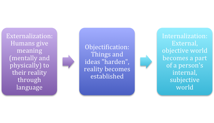 A flow chart of the social construction of reality